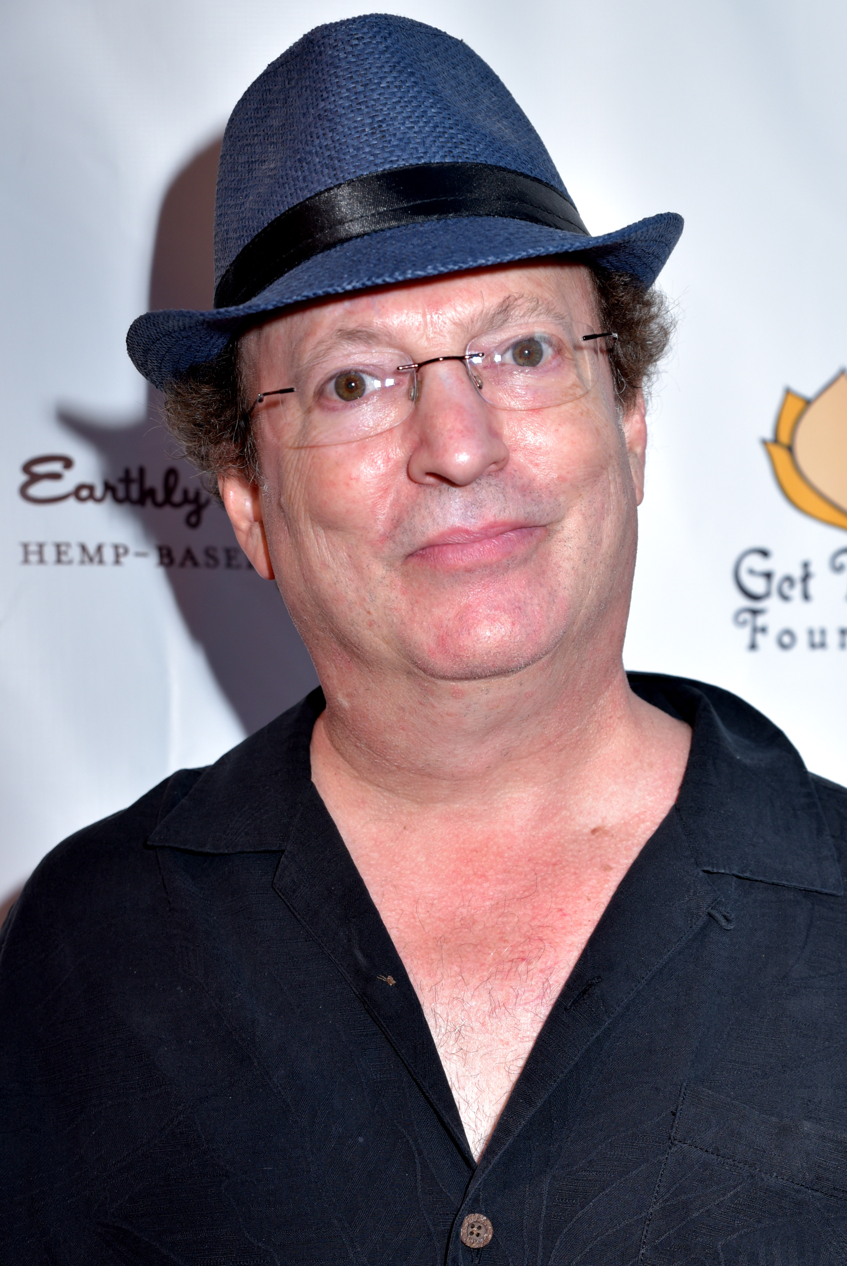 Fuzzbee Morse arrives for the California Saga 2 Charity Concert in Los Angeles California on July 3, 2019 - Photo by Glenn Francis of